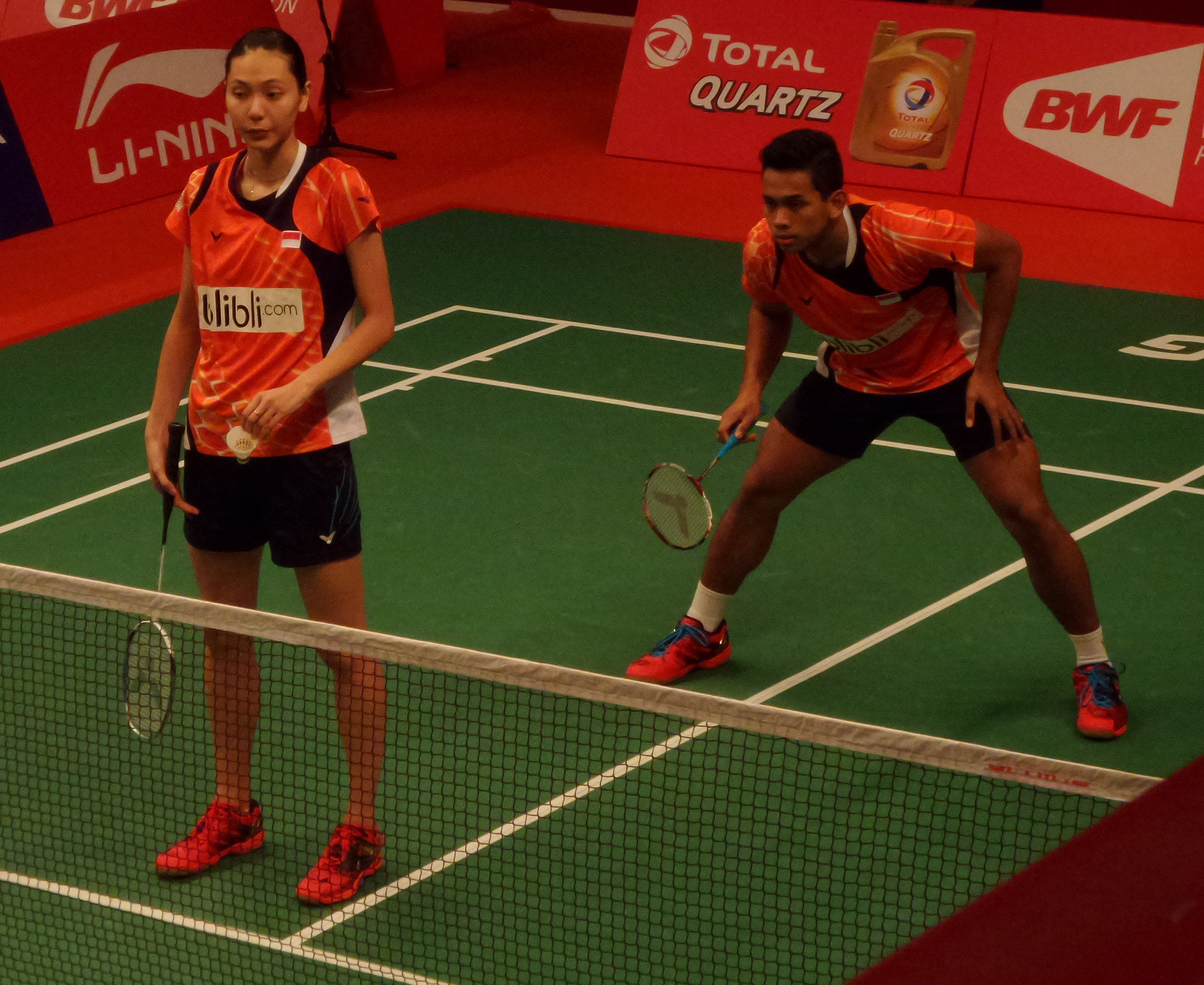 Gloria Emanuelle Widjaja and Edi Subaktiar in action during Day 2 of the 2015 BWF World Championships